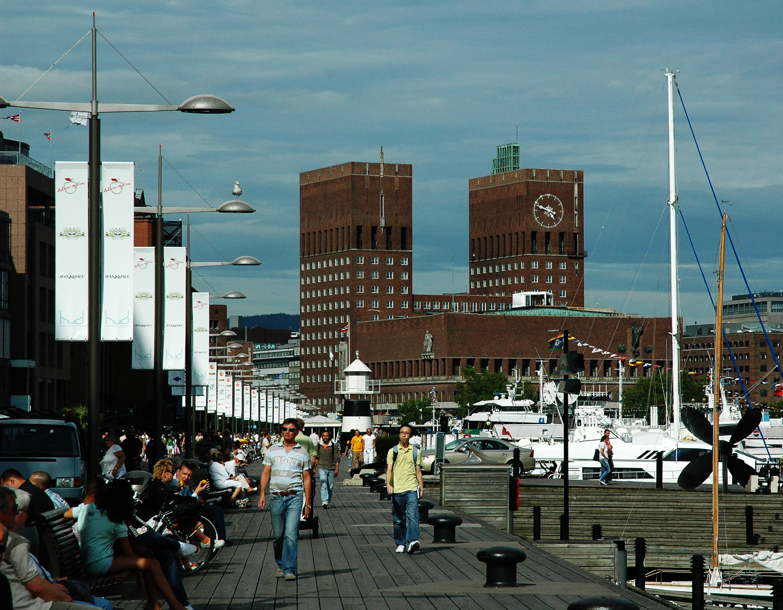 Oslo townhall seen from Aker Brygge.